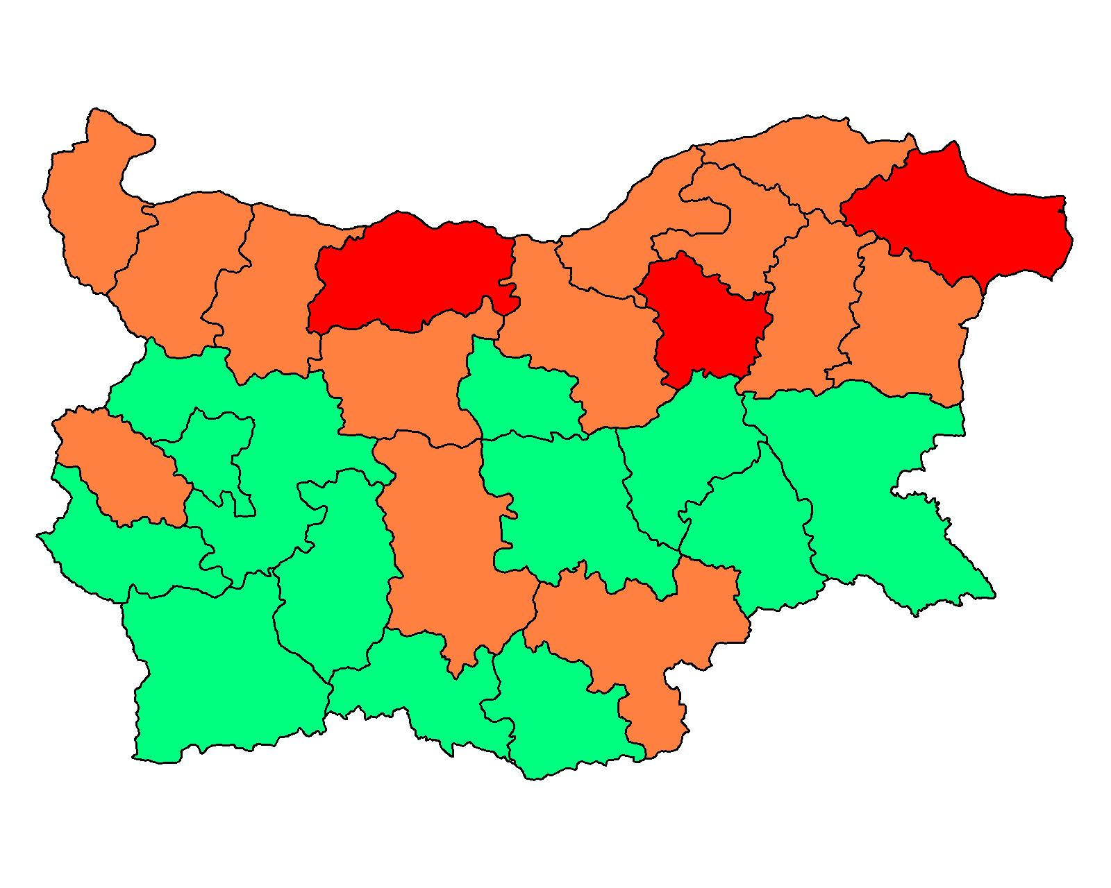 Rabies distribution in Bulgaria 1988 - 2001